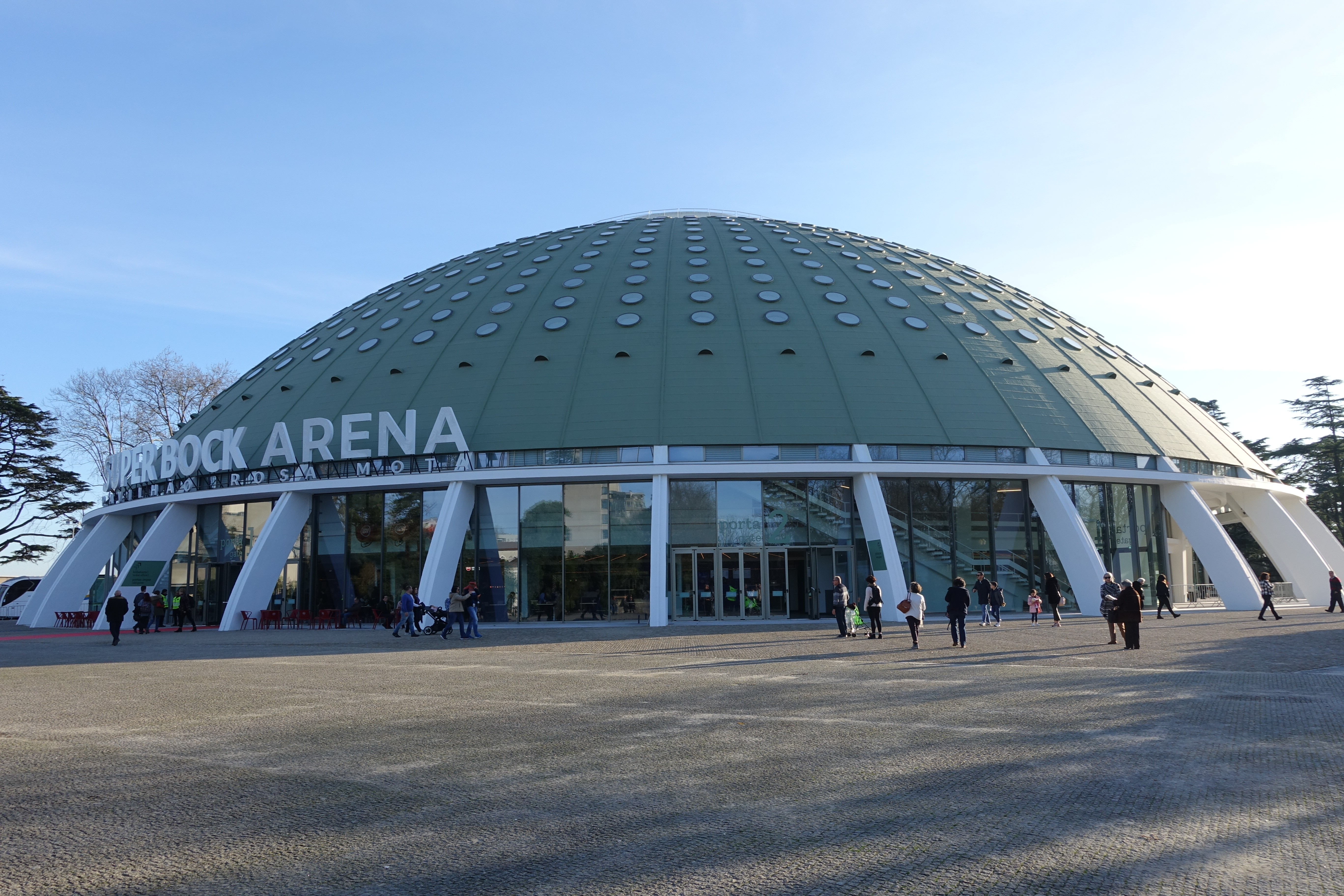 Pavilhão Rosa Mota in Porto Portugal.